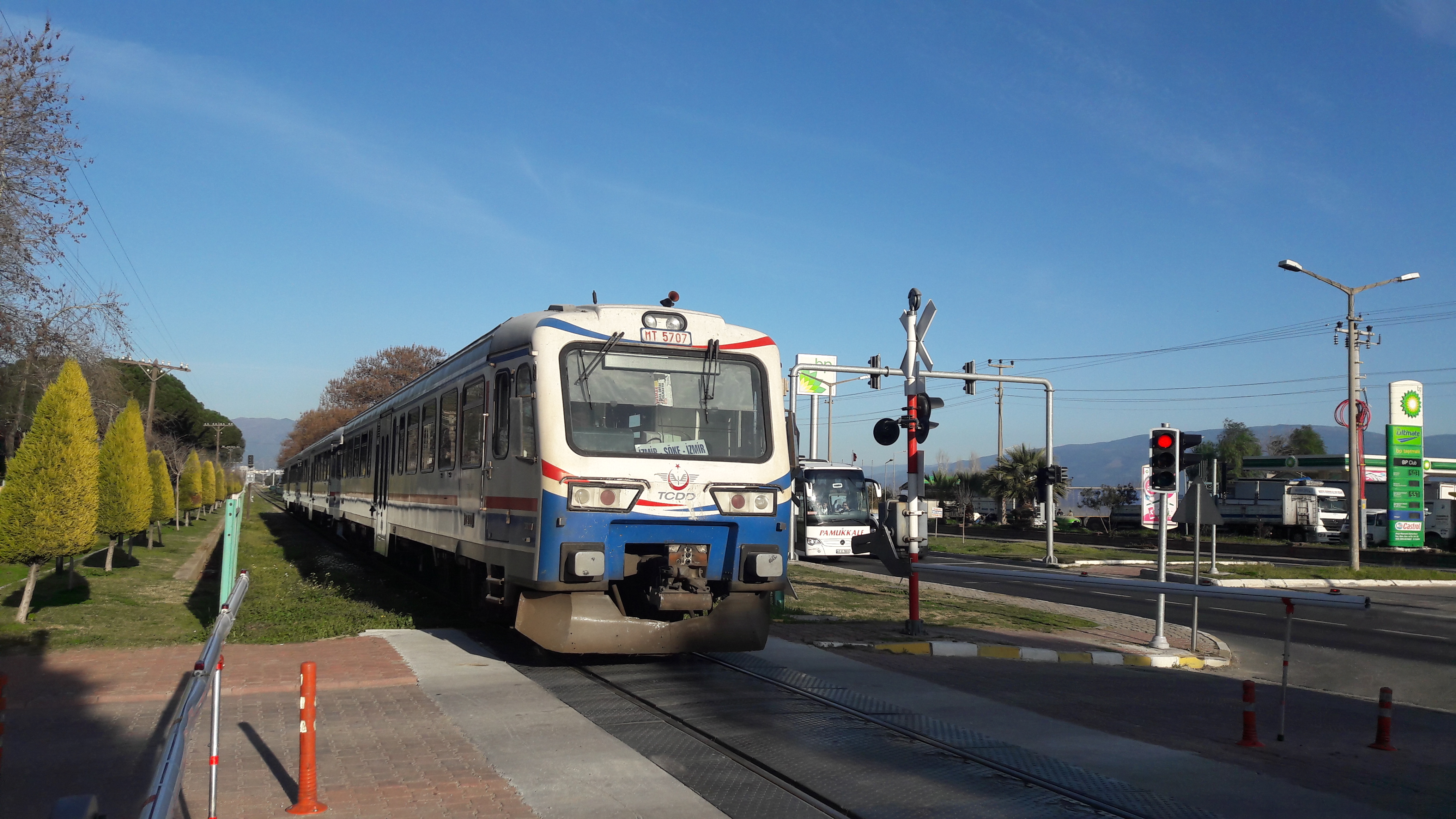 A westbound regional train to Söke, passing Atca.